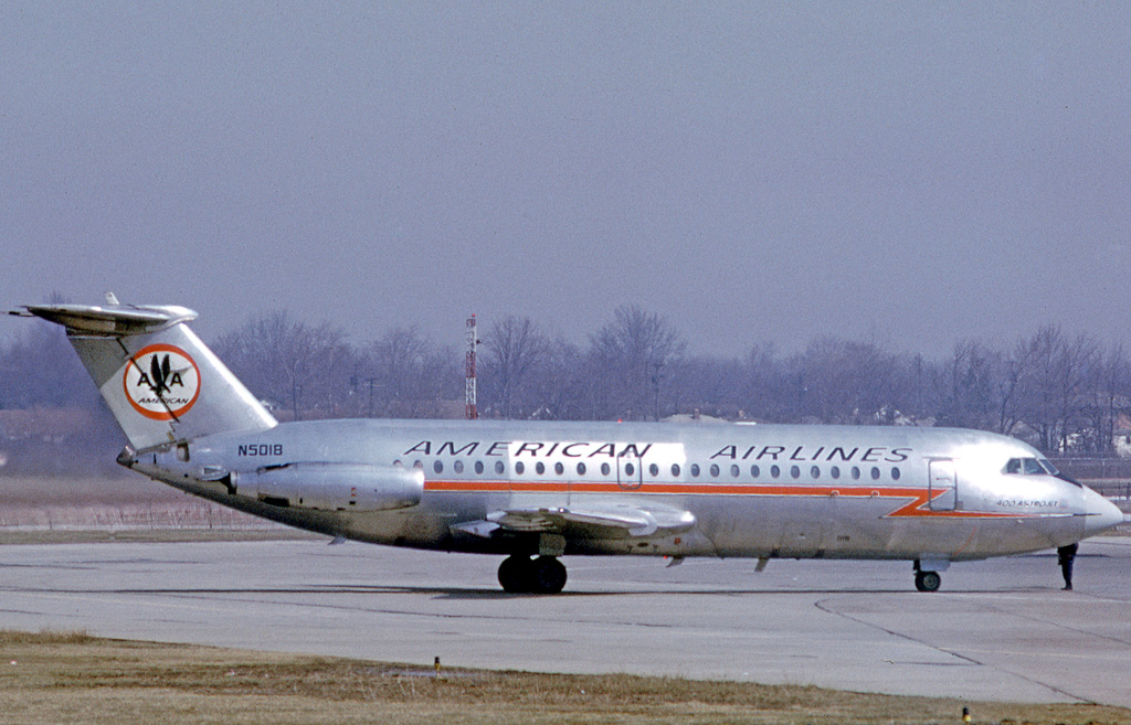 BAC 1-11 401AK N5018 of American Airlines at Cleveland Hopkins airport in 1971.